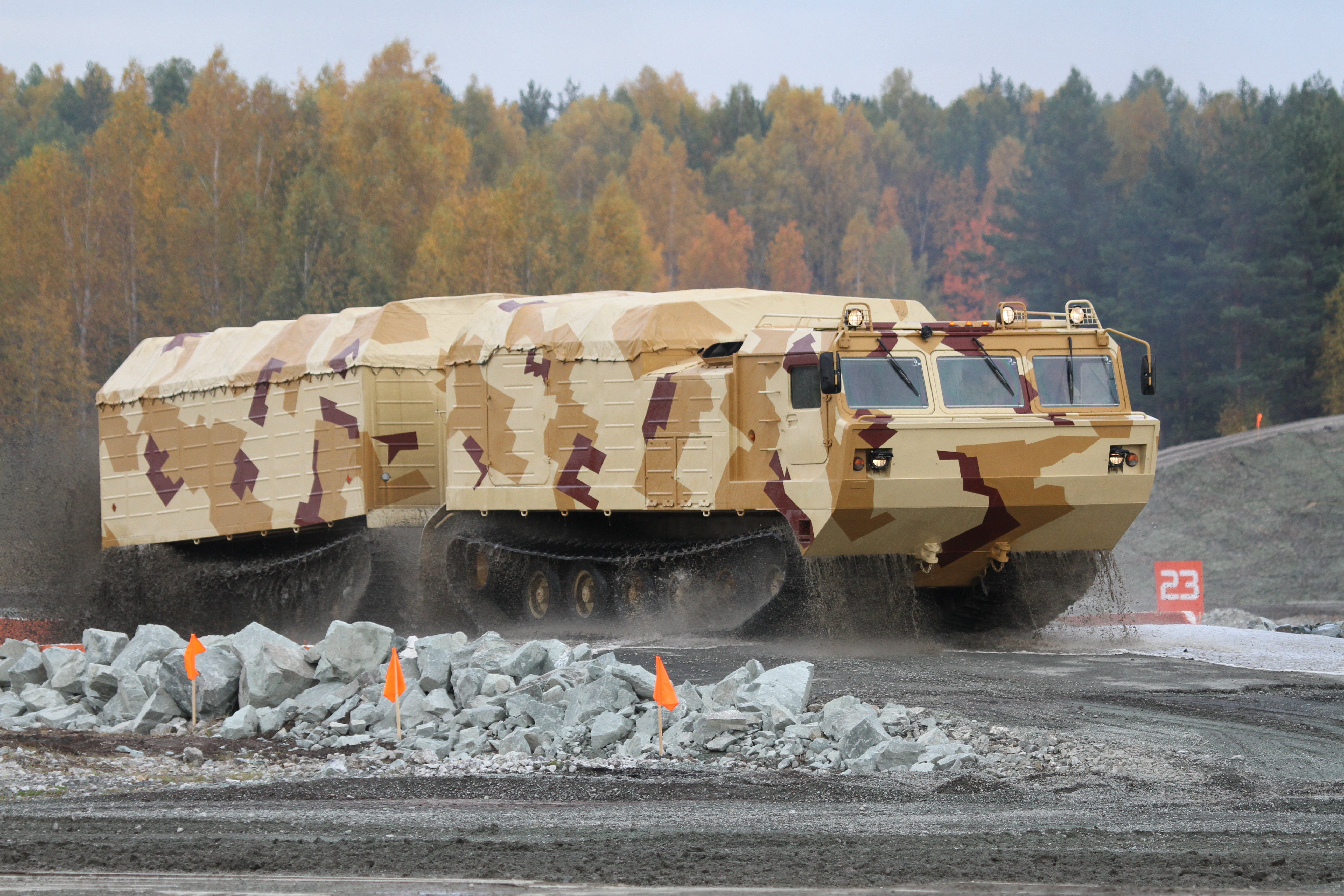 All-terran vehicle DT-30P1 on Russian Expo Arms 2013.